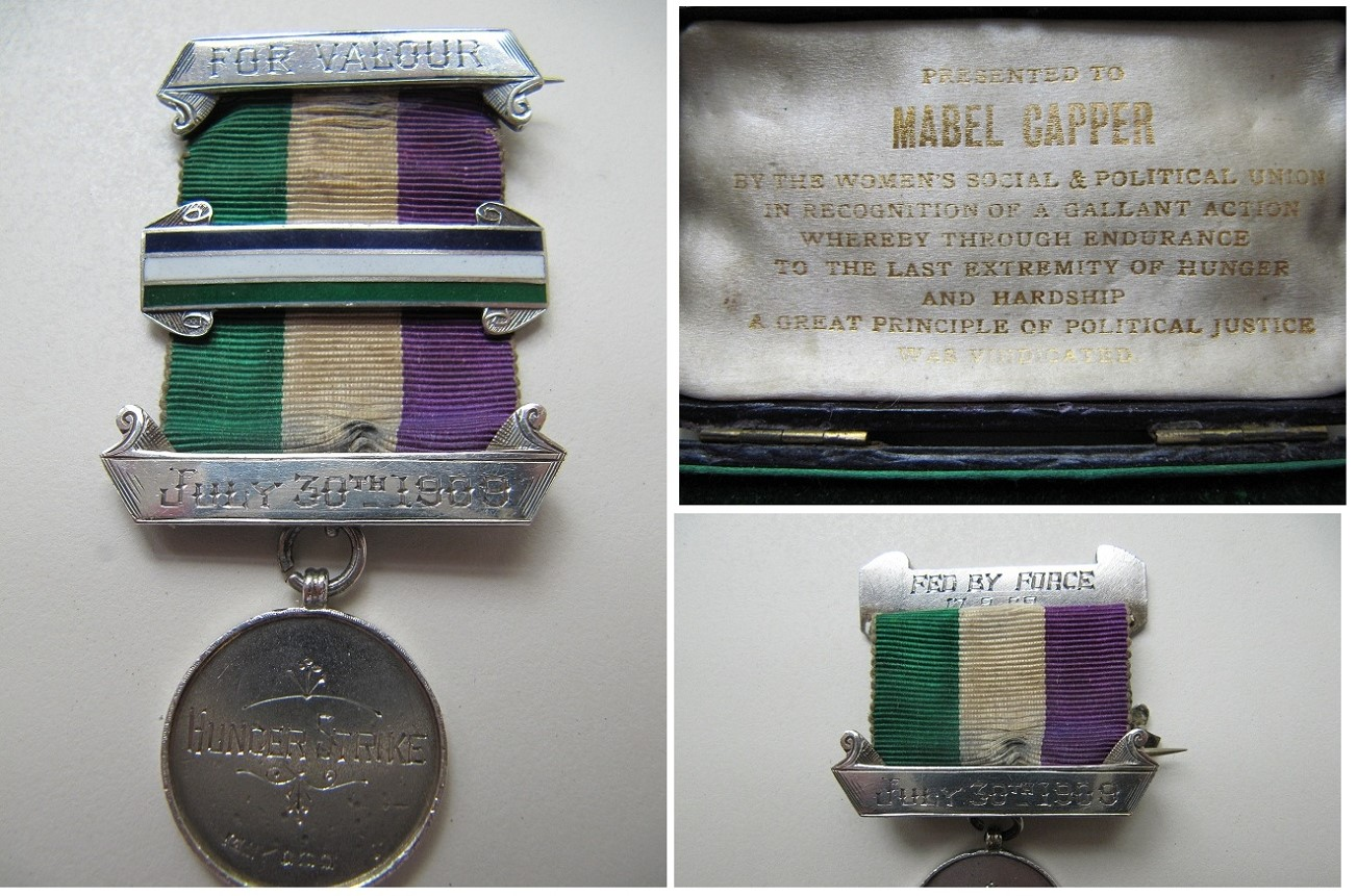 Mabel Cappers WSPU Hunger Strike Medal with Fed by Force Bar September 1909